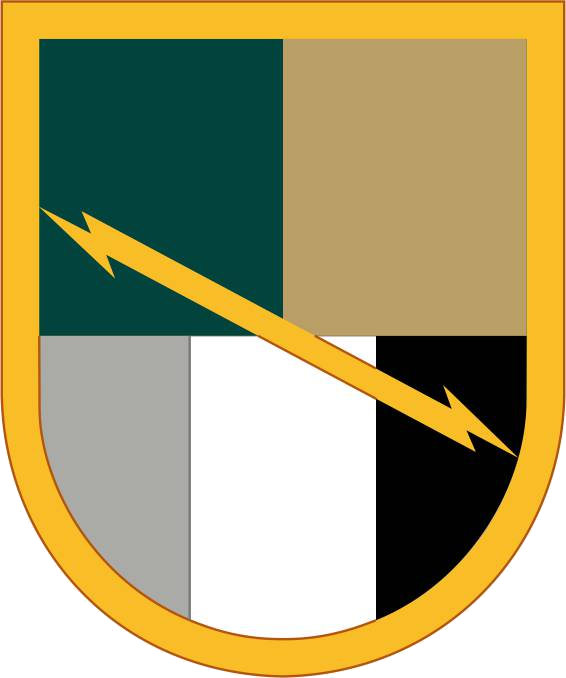 U.S. Army's 8th Military Information Support Battalion of the 4th Military Information Support Group unit flash